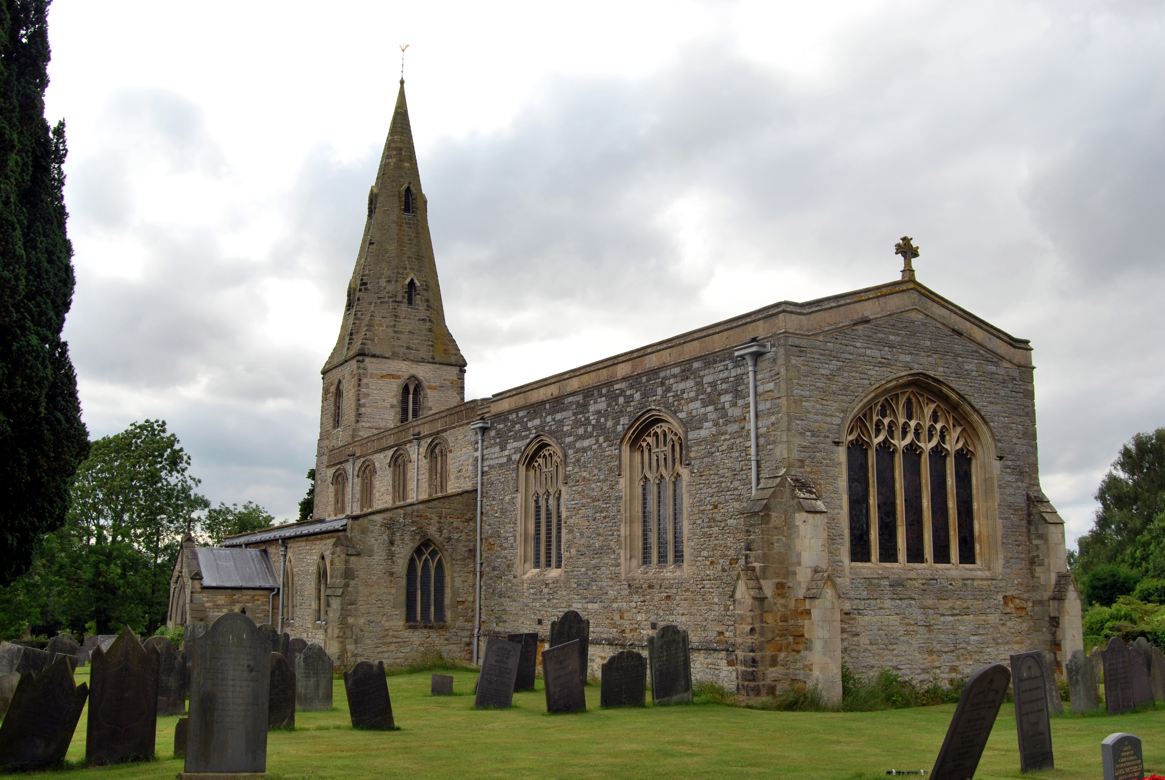 Willoghby on the Wolds St Marys and All Saints Church East aspect